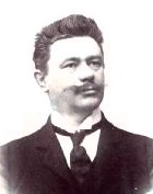 Domizio Cavazza (1865-1913)